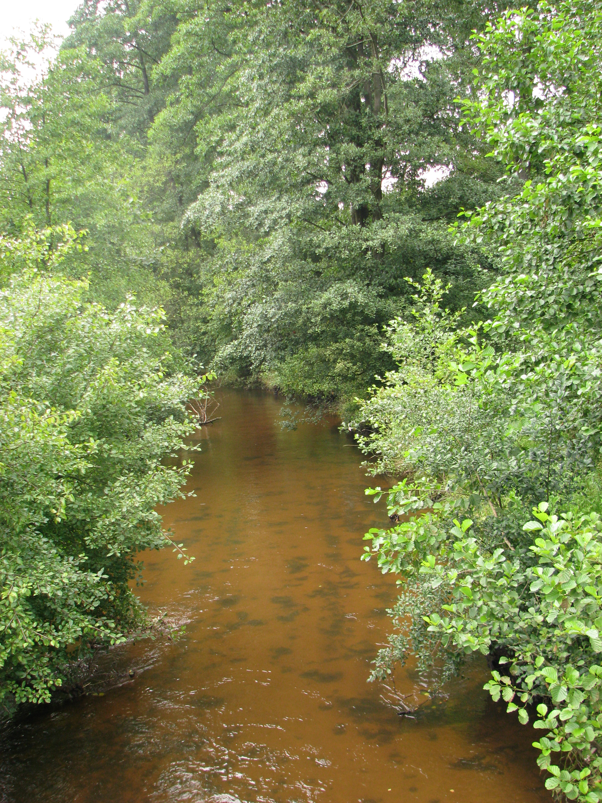 Kacanka River in Wiązownica-Kolonia, powiat staszowski, Świętokrzyskie Voivodeship, Poland.